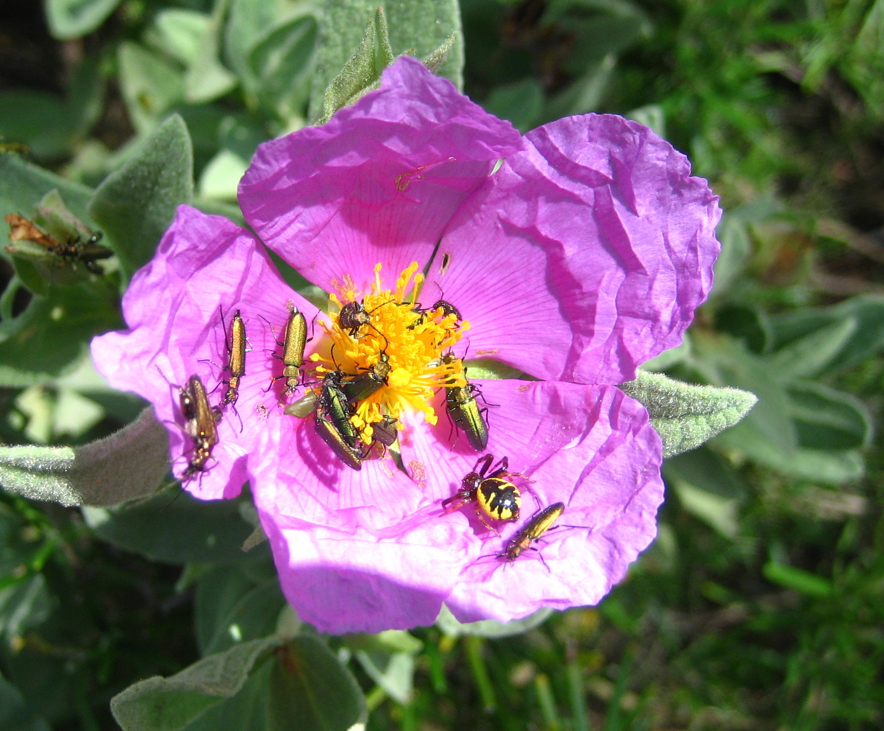 Lobonyx aeneus (Coleoptera, Prionoceridae) on a Cistus albidus flower. Terrassa (España)